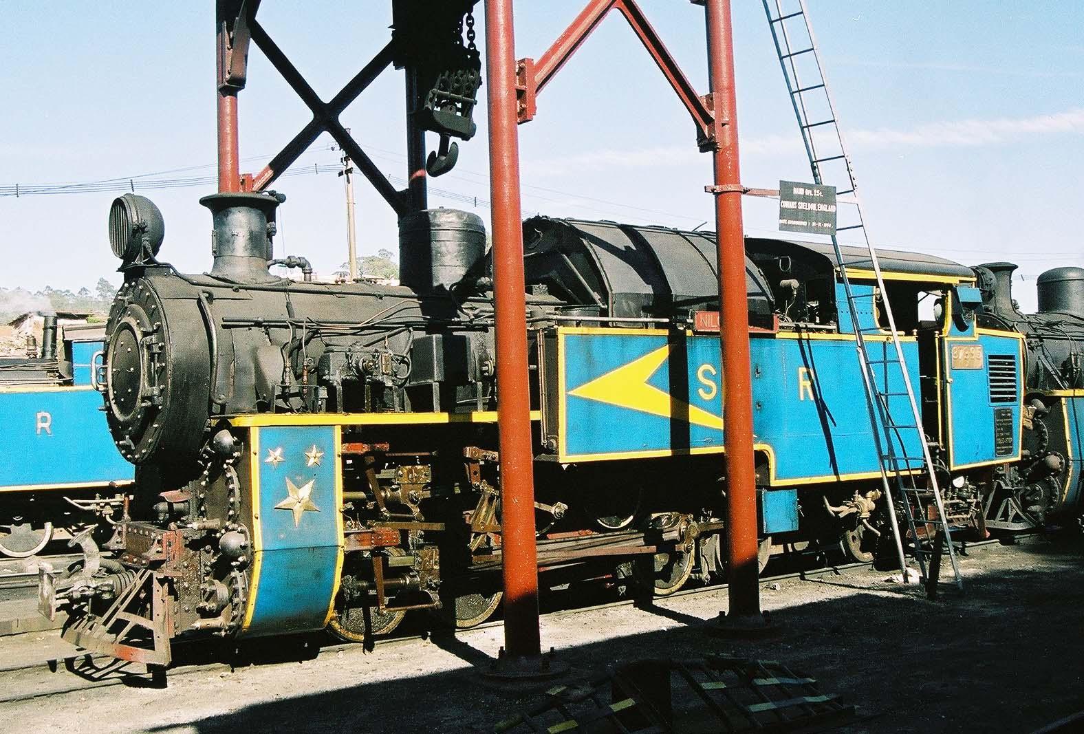 Nilgiri Mountain Railway locomotive No.37395 at Coonor Shed. This locomotive has been converted to oil burning. Fuel is carried in a saddle tank just in front of the cab while a diesel generator has been put in the bunker. Camera - Minolta X700 (35mm film) Modified - Scanned by film developer. File size and definition changed using Adobe Photoshop 5.0LE